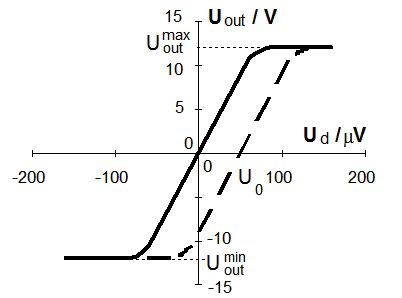 Graph_dependencies_output_voltage__on_difference_input_voltage(Operational_amplifier)